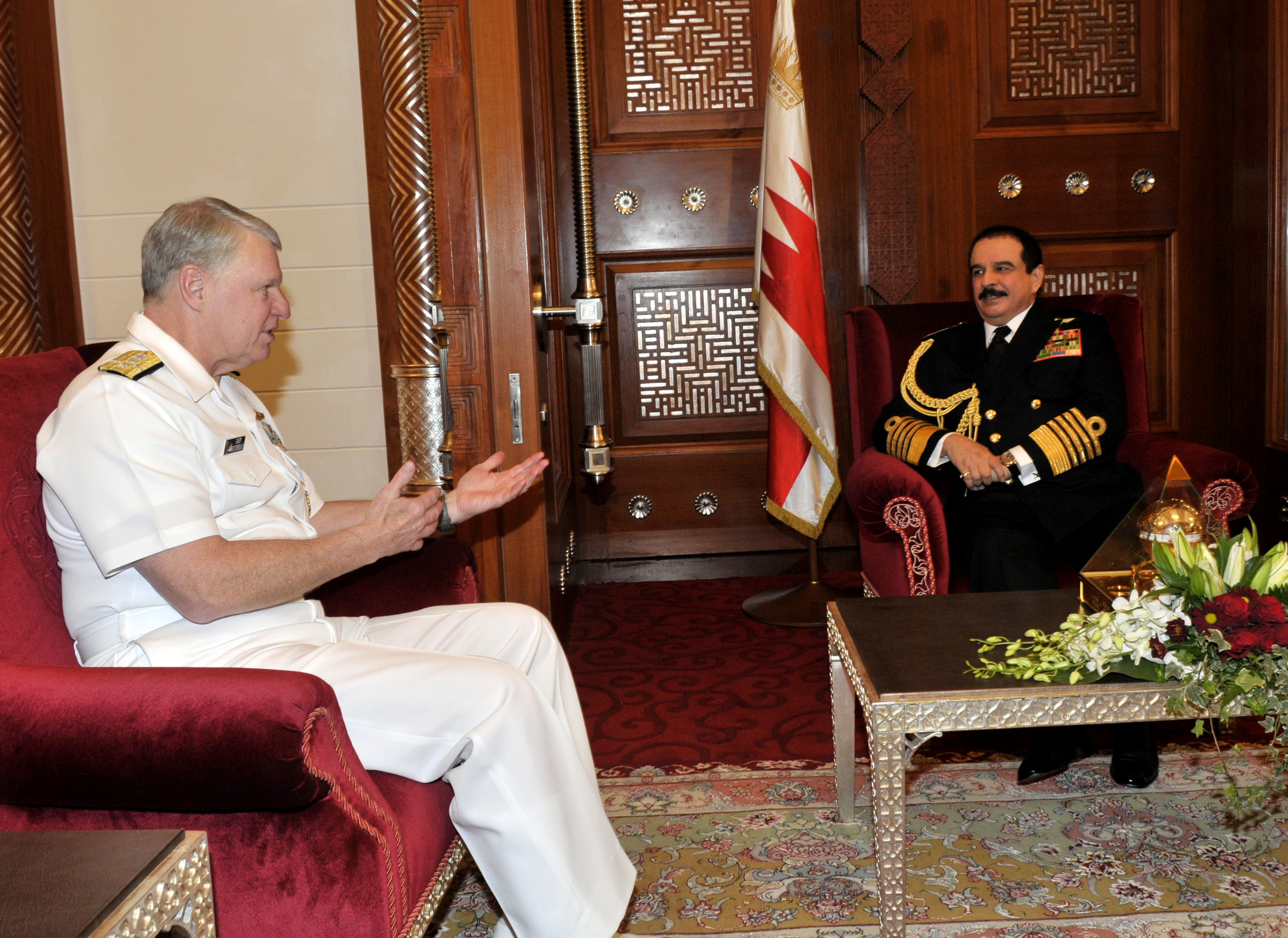 MANAMA, Bahrain (Jan. 17, 2011) Chief of Naval Operations (CNO) Adm. Gary Roughead meets with His Majesty the King Hamad bin Isa Al Khalifa during an office call while visiting Manama, Bahrain. (U.S. Navy photo by Chief Mass Communication Specialist Tiffini Jones Vanderwyst/Released)